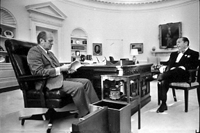 Clement Stone, Chairman, Combined Insurance Company of America meets Gerald Ford in the Oval Office.